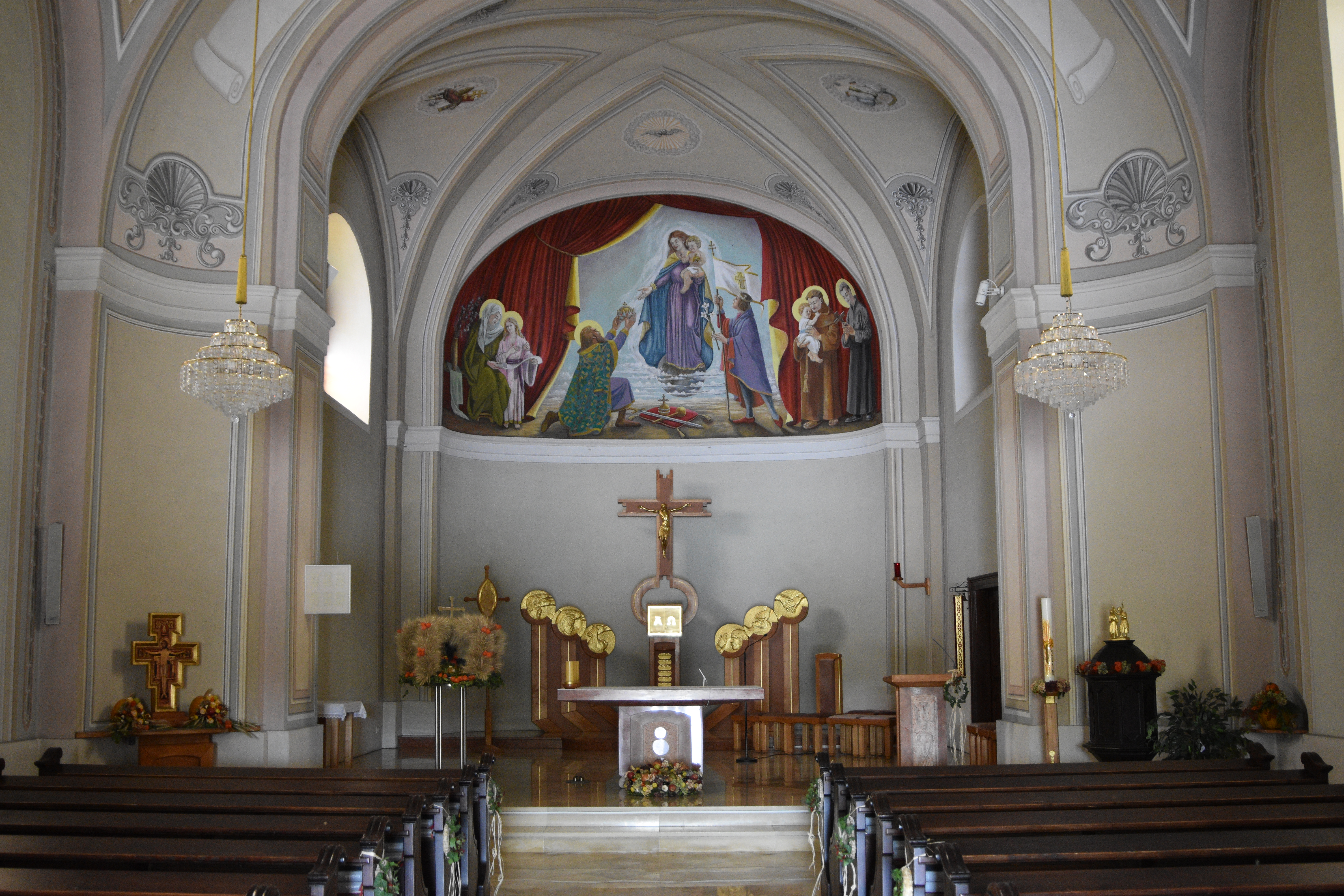 Church Pfarrkirche Königsdorf Burgenland Interior